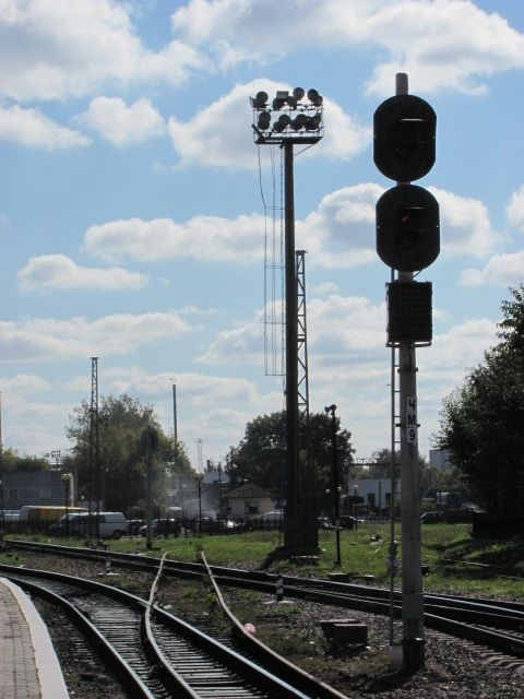 Standard gauge track (leading right) leaving broad gauge track (leading left) in Kovel station